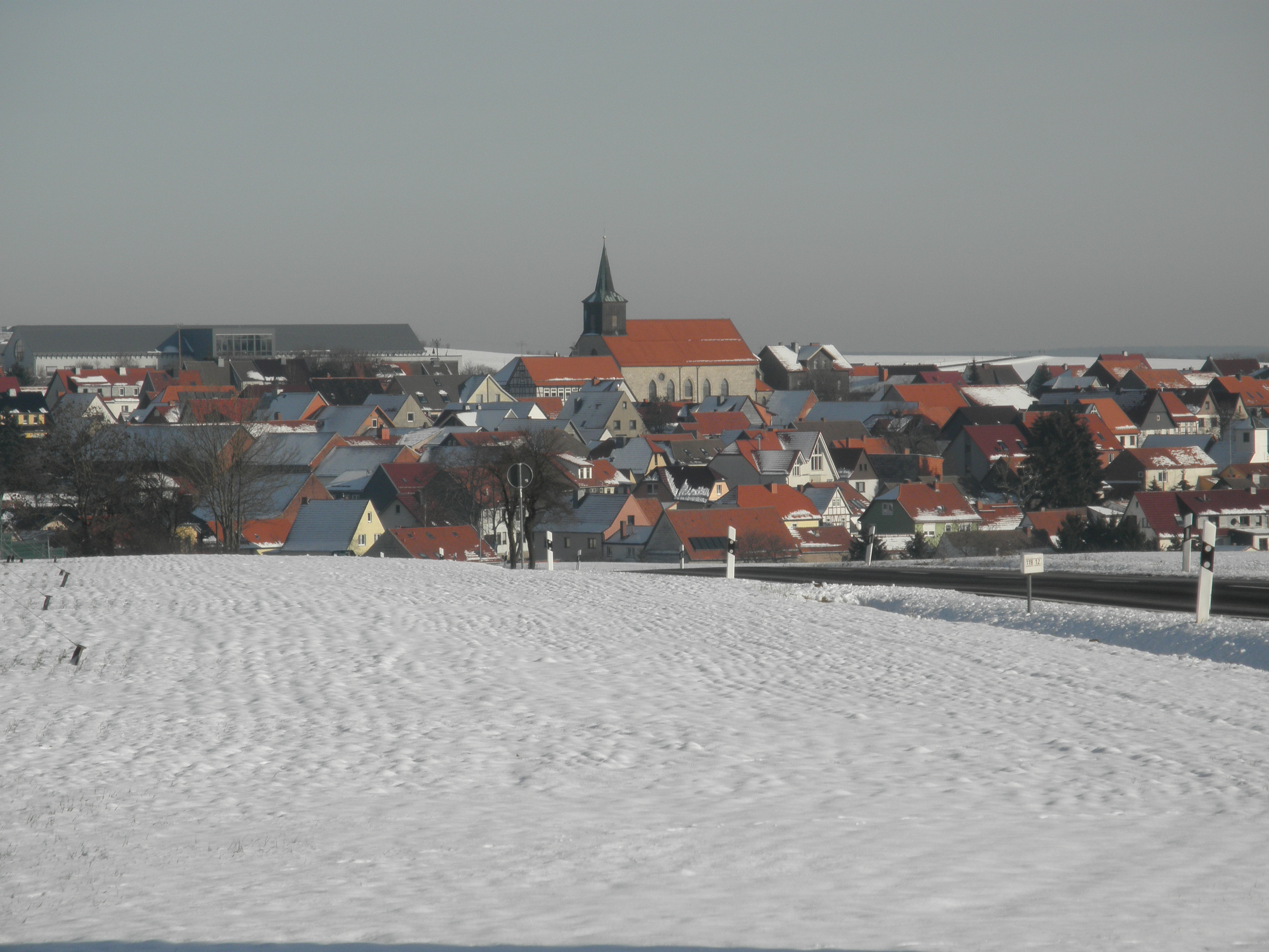 Village Wachstedt (Eichsfeld) in Thuringia